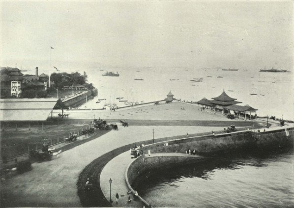 Where the Viceroys and Governors land upon their arrival in India.